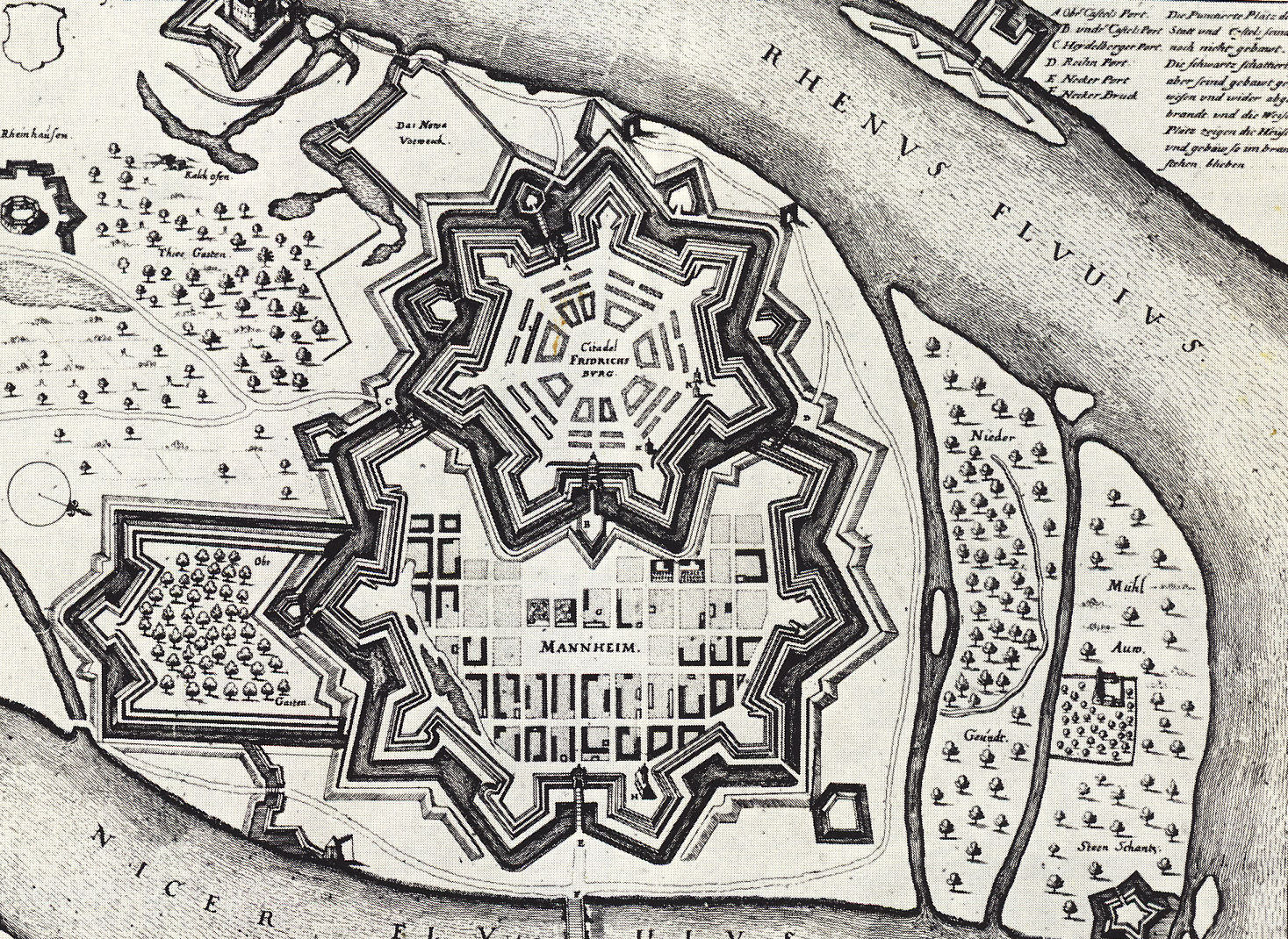 old sight of Mannheim, Germany)